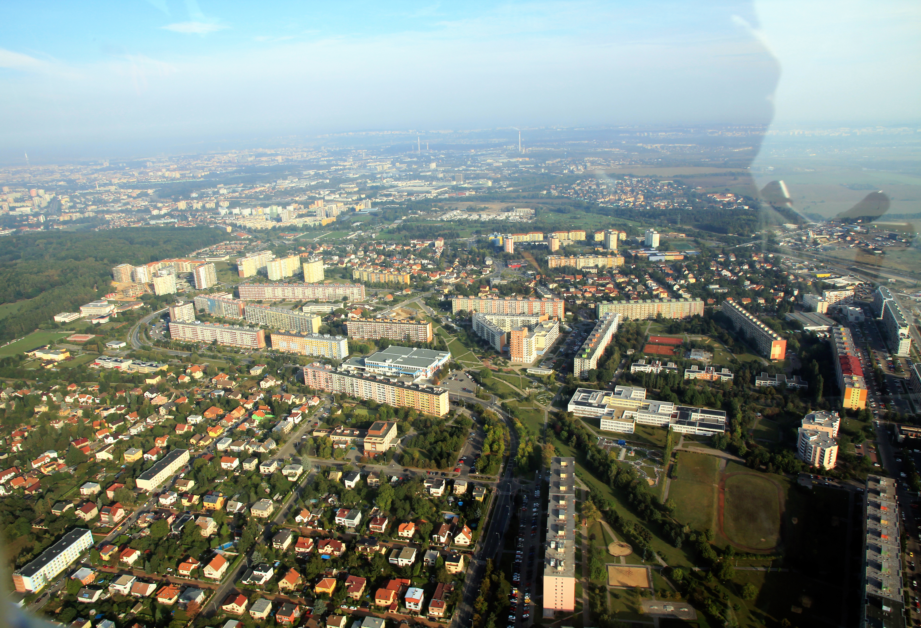 View from helicopter on Petrovice and Horní Měcholupy, parts of Prague, Czech Republic